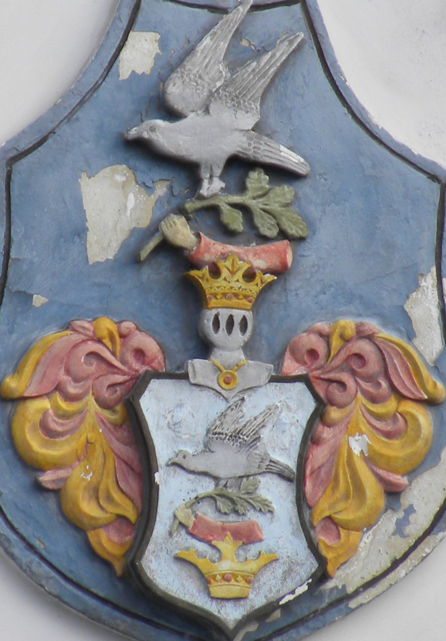 Coat of arms of Alajos Pogány (* 1932). Tympanum of Pogány manor house (Pogány kúria), Dunakiliti, Hungary.